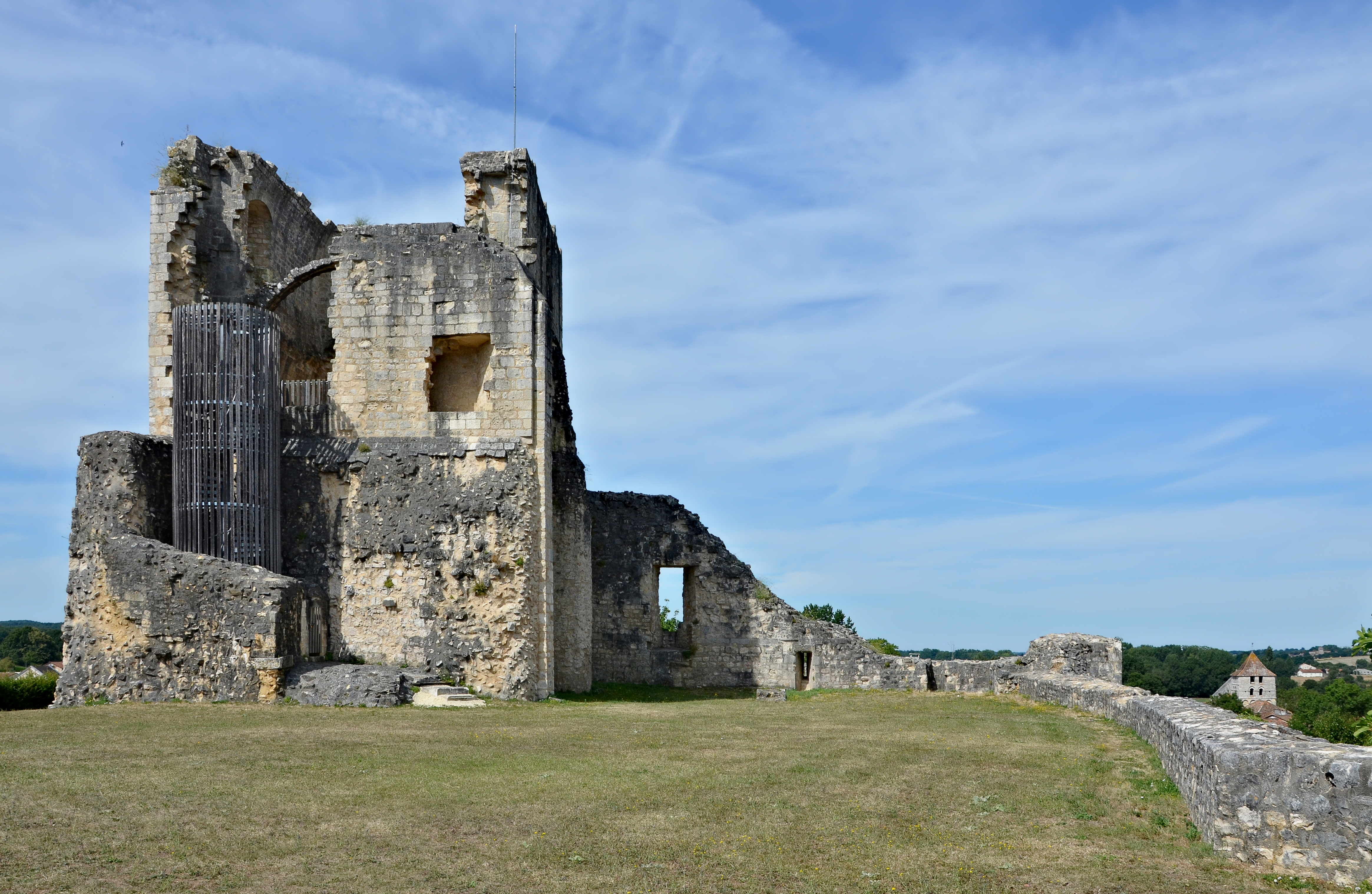 Castle keep and courtyard (12th and 13th centuries), Marthon, Charente,France. .